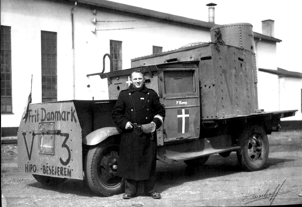 Picture of Poul Frode Vilspang